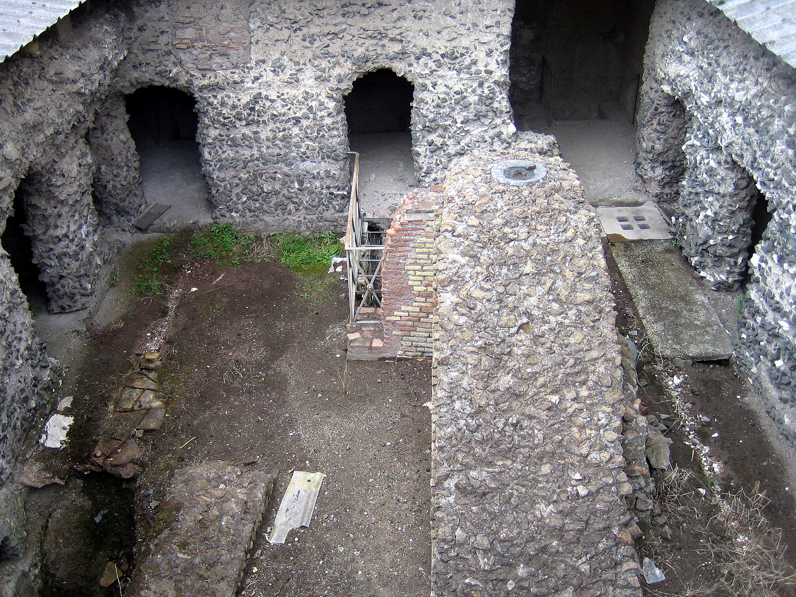 see above